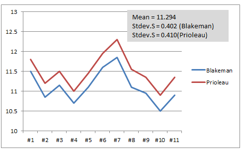 Plot of data from Patriots footballs